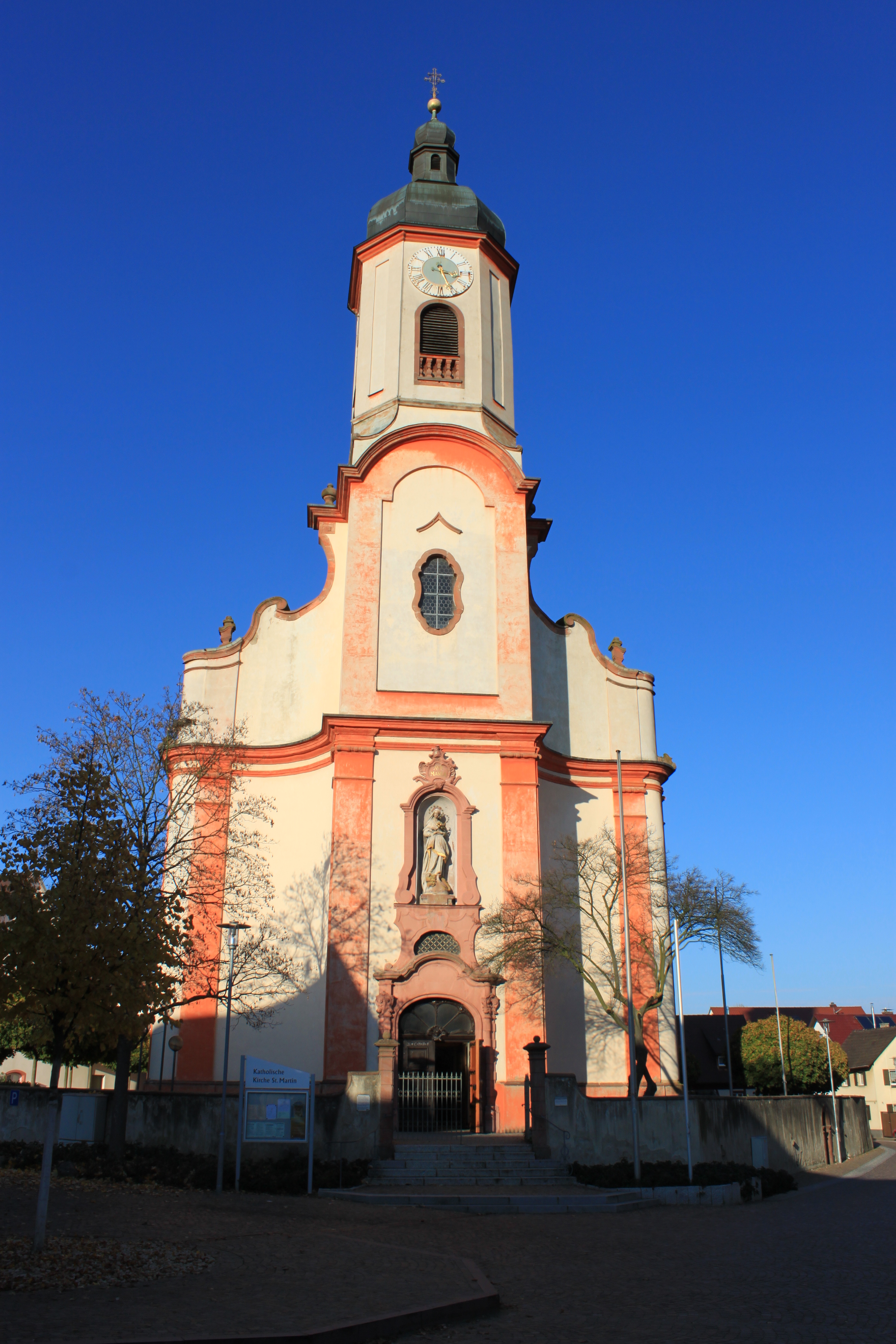 Church St.Martin, Riegel am Kaiserstuhl Germany